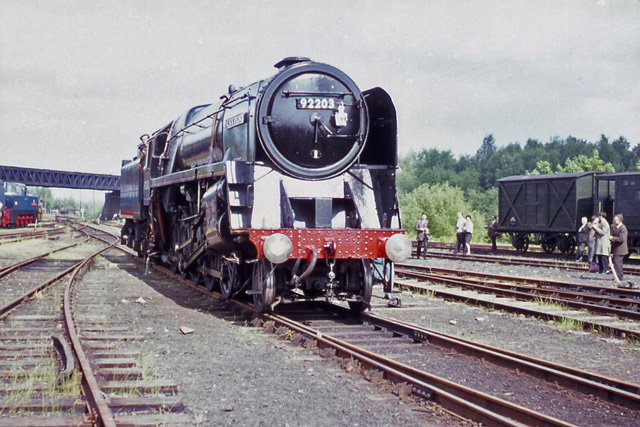 Longmoor Military Railway The Longmoor Military Railway formed an extensive network between Bordon and Liss. The bridge in the background carries the line to Liss over the yard at Longmoor. The loco is David Shepherd's BR Class 9F 92203 Black Prince.